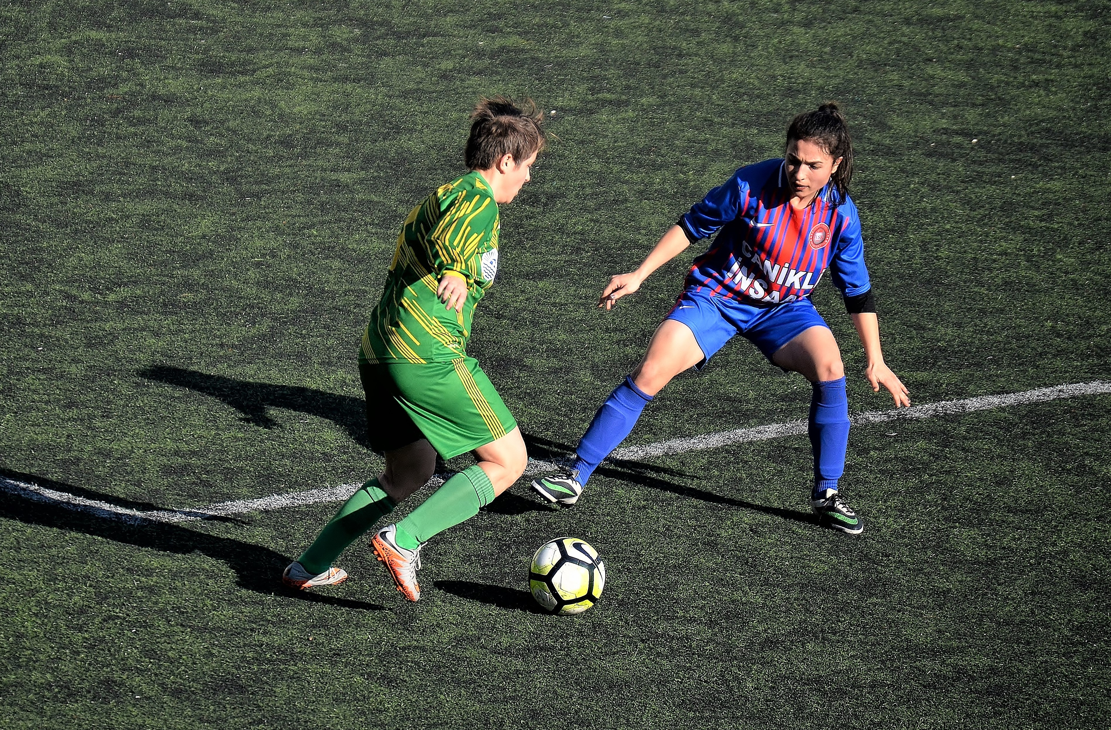 Selin Sivrikaya (left) of Kireçburnu Spor and Safa Merve Nalçacı (right) of Fatih Vatan Spo in the 2017-18 Turkish Women's First Football League.